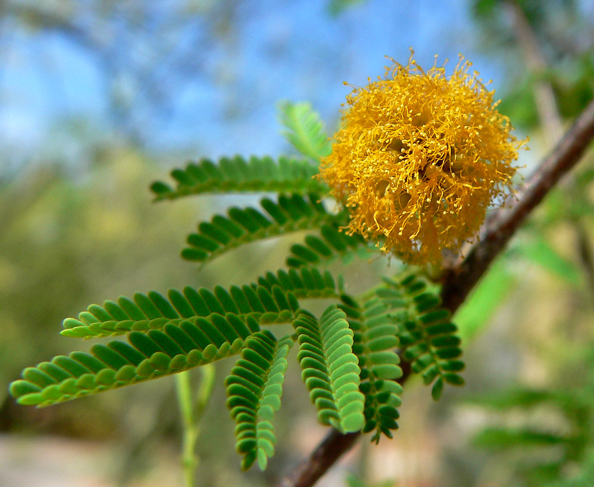 Photo of Acacia smallii on the University of Nevada, Las Vegas campus